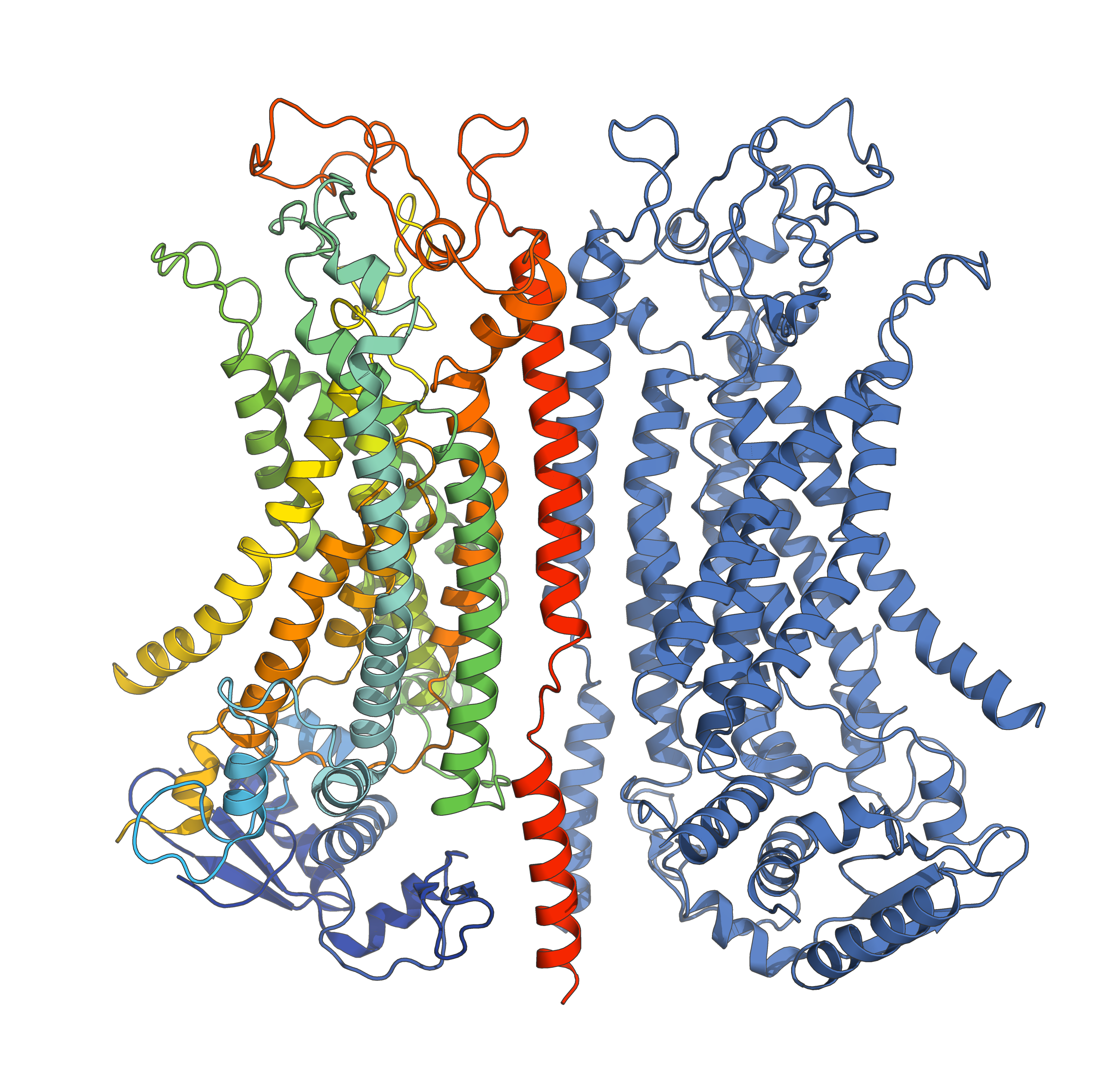 Cartoon representation of TMEM16 from Mus musculus based on cryoelectron microscopy reconstruction. From EMDB entry 3860 (PDB: 5oyg​). Corresponding paper